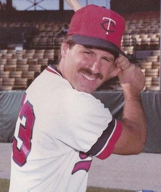 Image cropped from a baseball card of Mike Stenhouse from the 1985 BRF Minnesota Twins set.